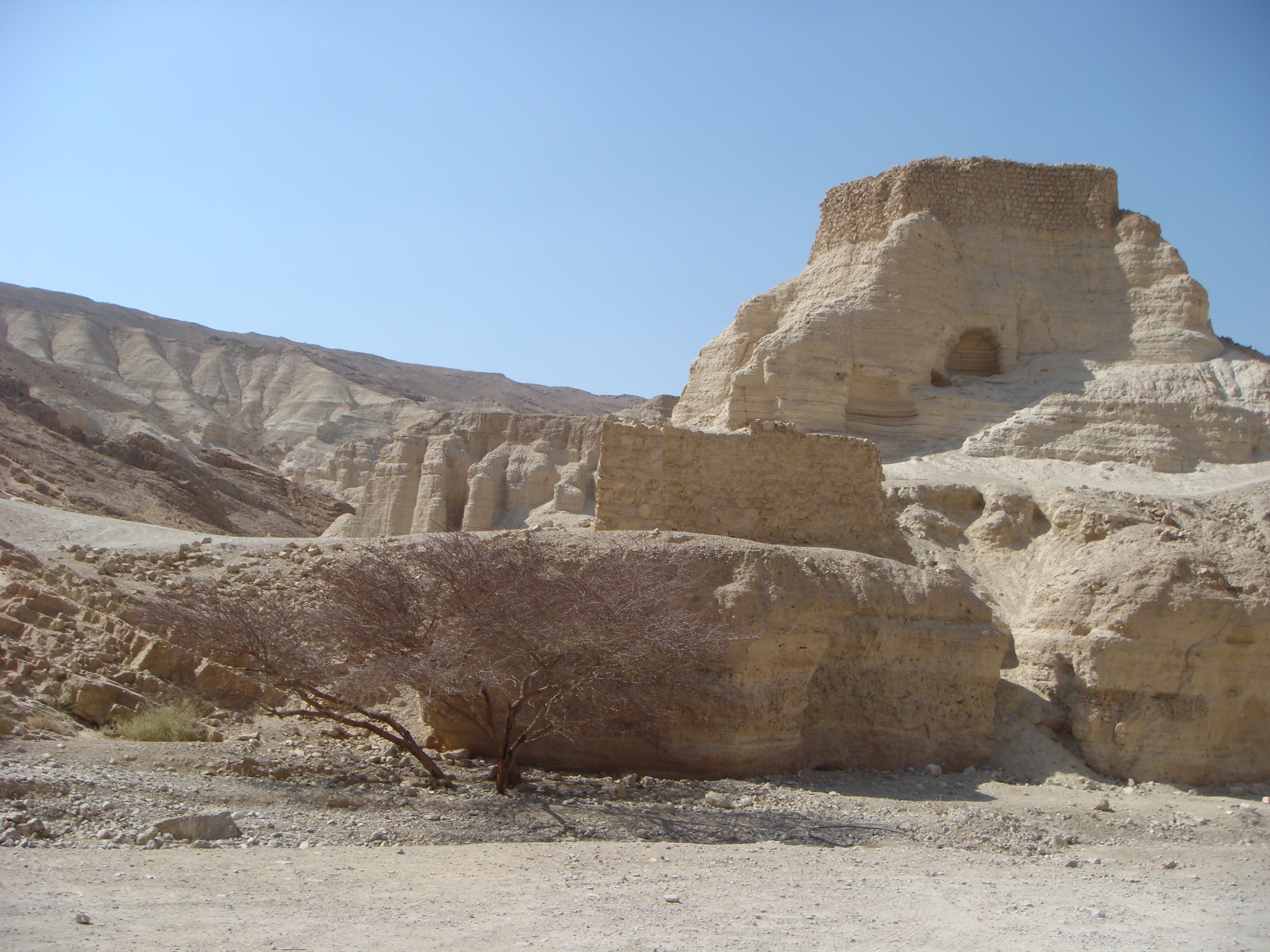 The Roman Zohar fort, near the estuary of Zohar river to the Dead Sea.